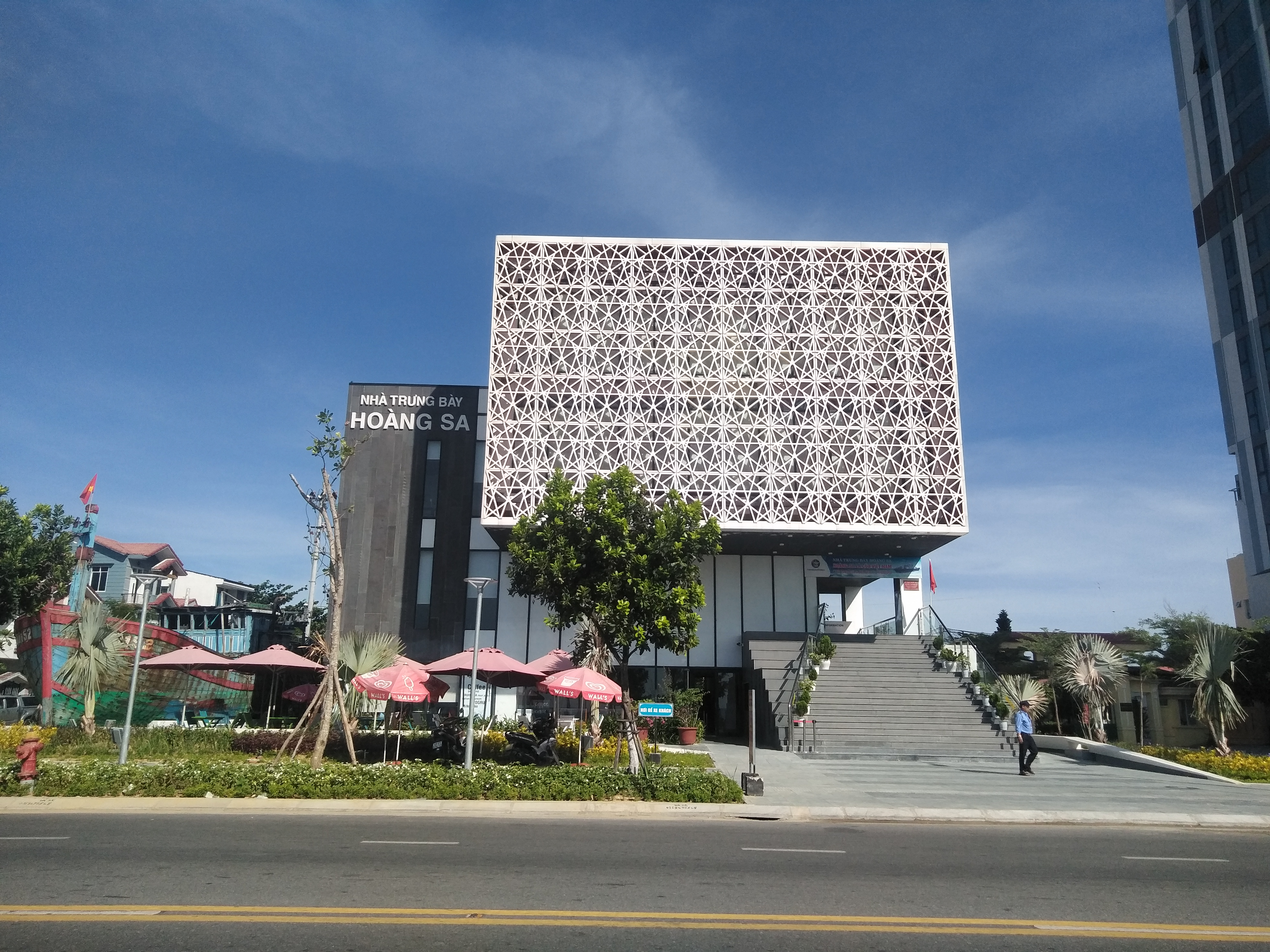 Hoang Sa Exhibition House, Da Nang